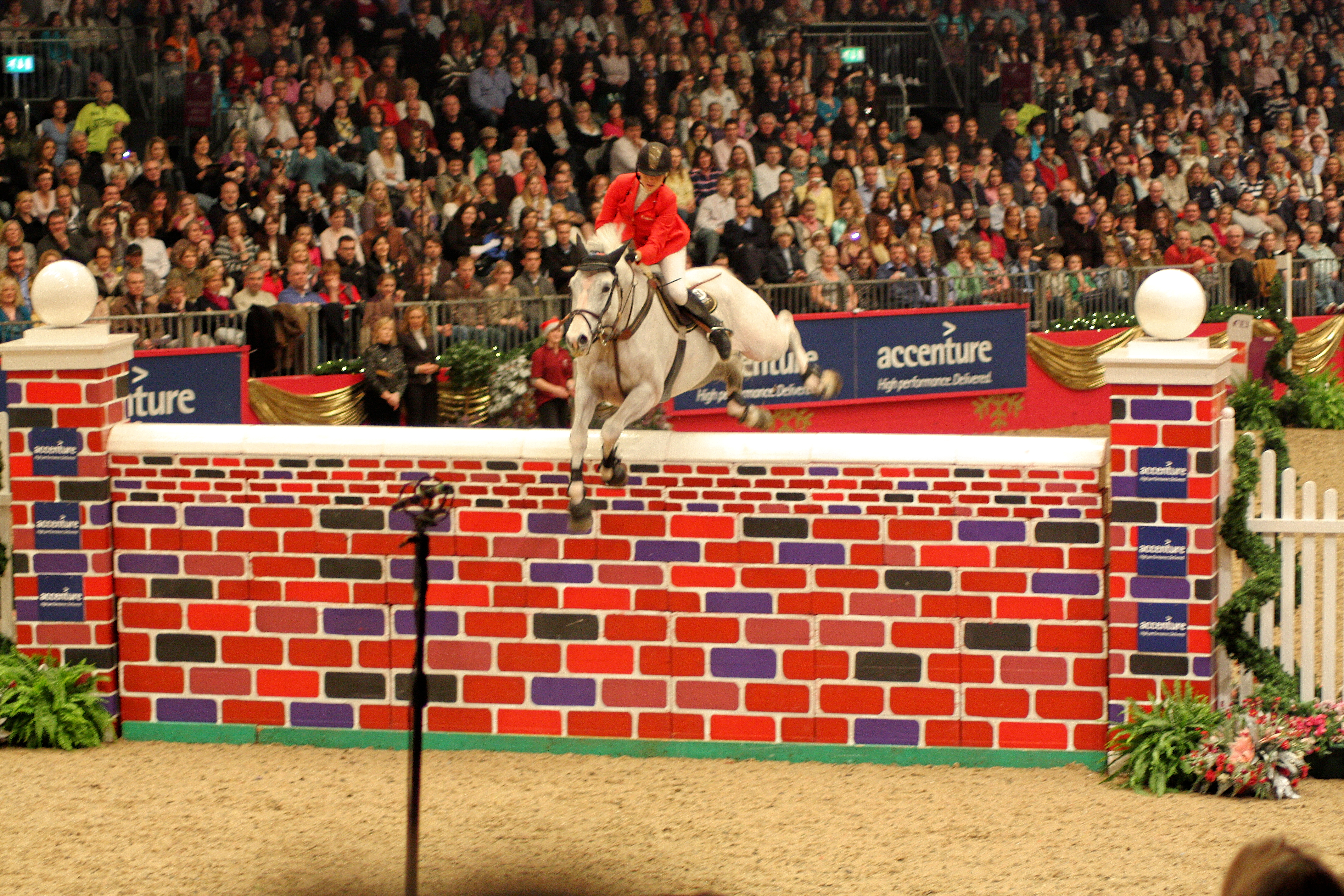 Ellen and William Whitaker split the Accenture puissance prize at Olympia Horse Show after they both cleared 7ft 2in over the wall in front of a packed house. The defending champion William, riding Insul Tech Leonardo, and his cousin, Ellen, with Ladina B, were the only two riders to make it to the fifth and final round of the class.